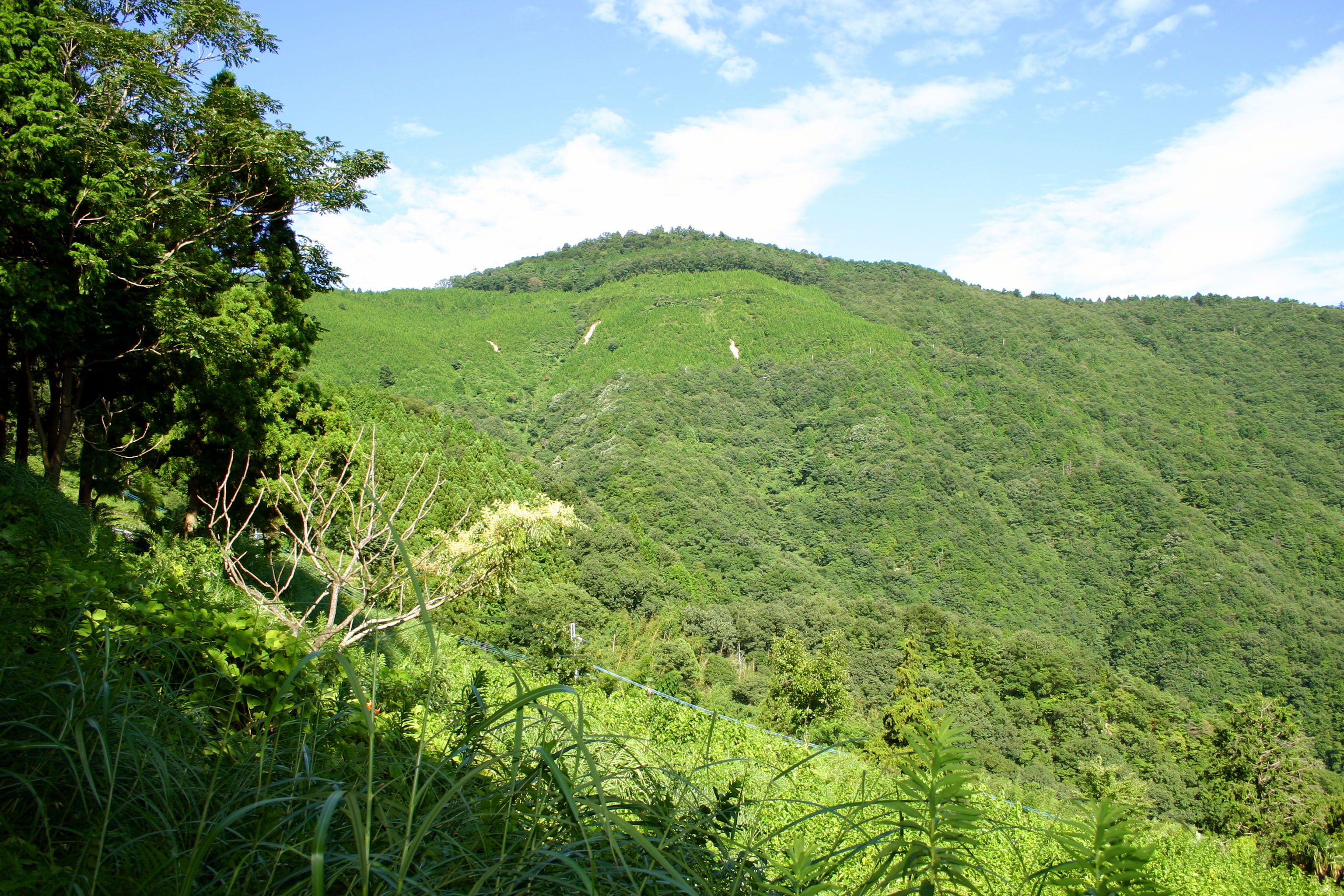 Mt. Myōtai in Mima-shi, Tokushima-ken